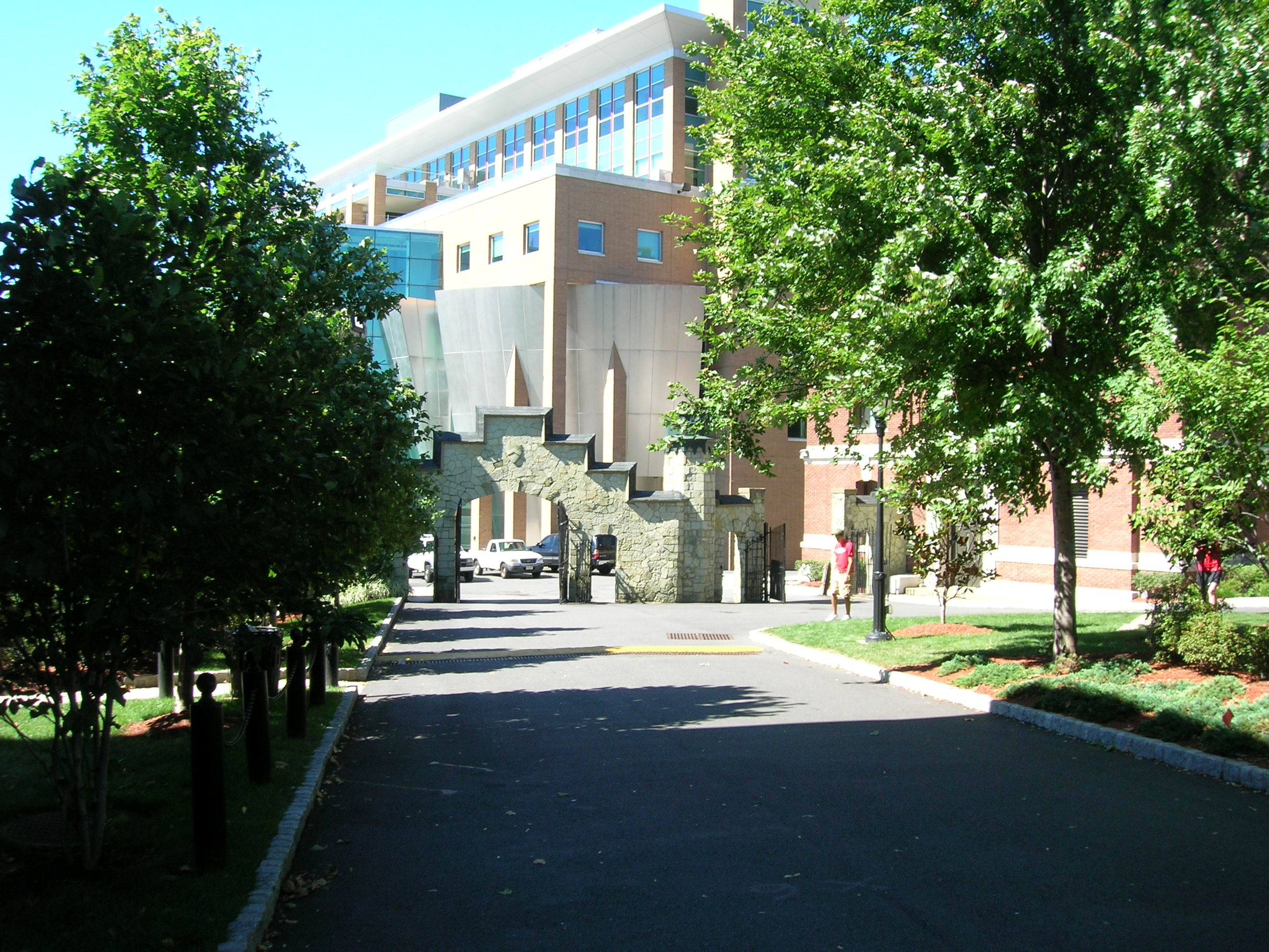 A view of the gatehouse on DDR Drive at Stevens Institute of Technology.